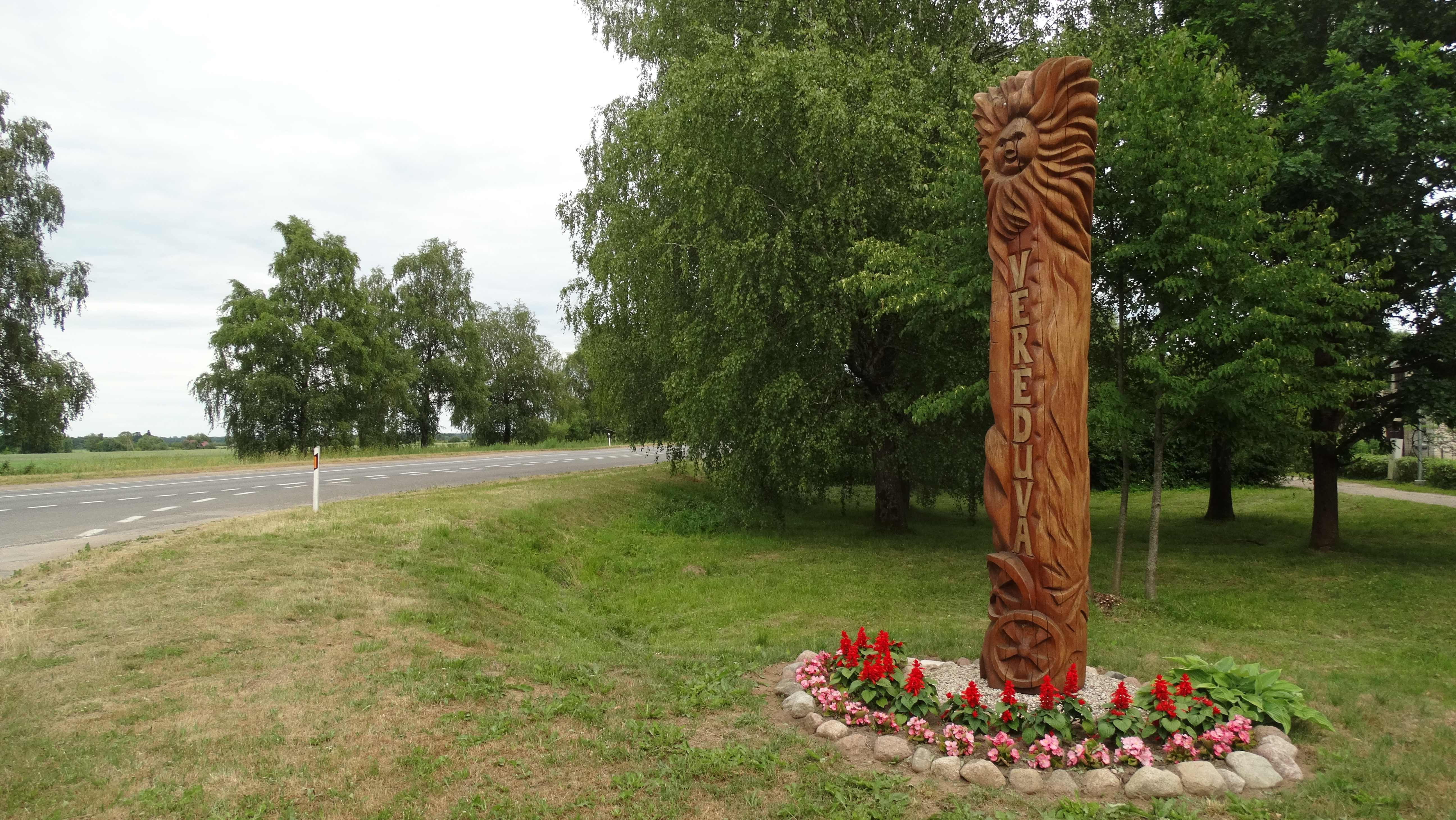 Verėduva, Raseiniai, Lithuania